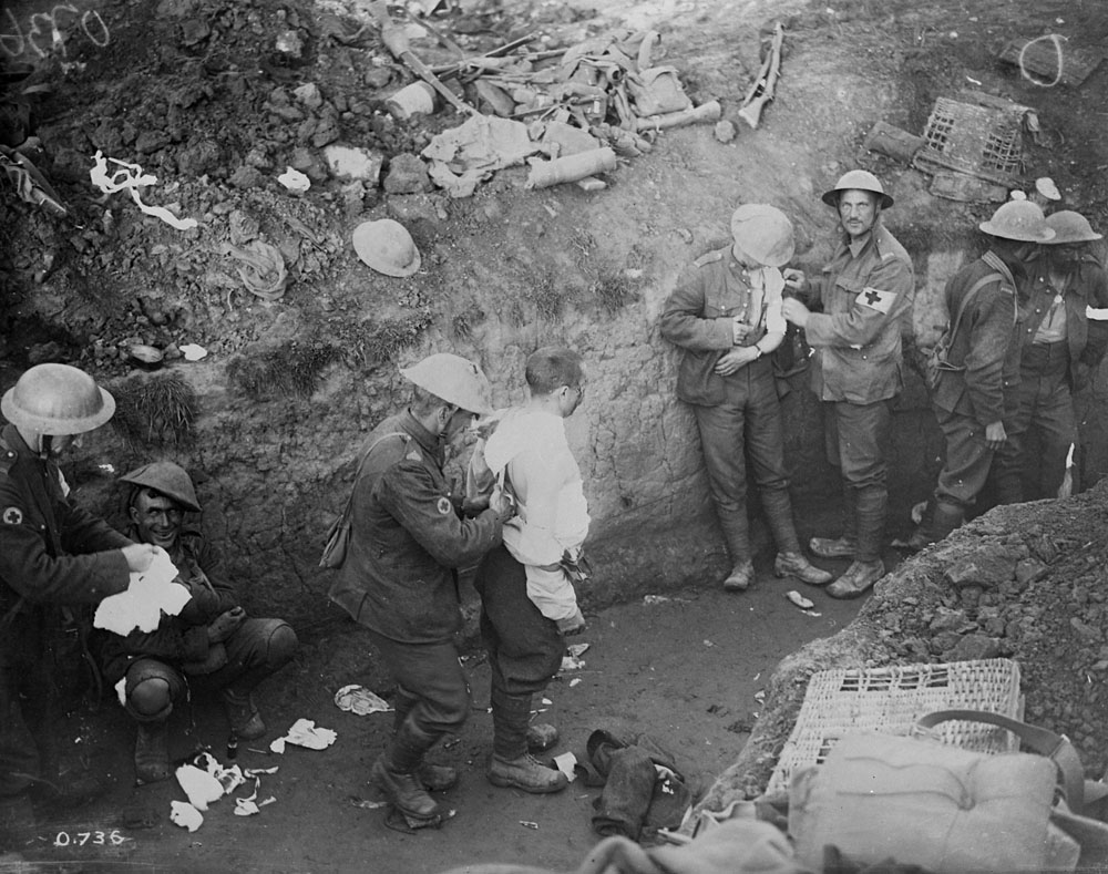 Wounded Canadian soldiers at the battle of Courcelette, in the Somme region during WWI. This photo is very widely distributed in a cropped form, without attribution, and mis-titled "The Shell Shocked Soldier." In reality the soldiers shown have received physical injuries and are being treated at a dressing station.